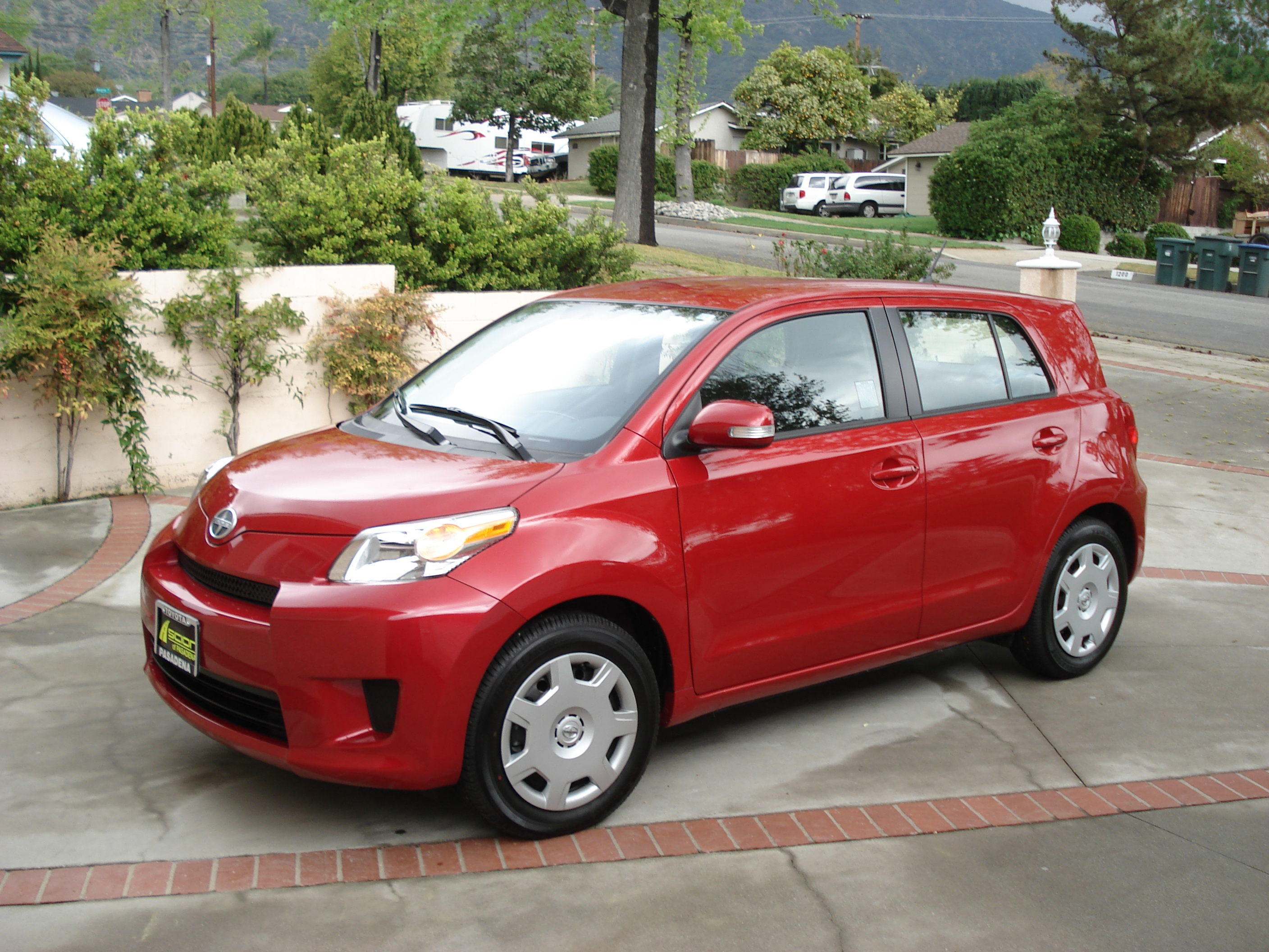 A Barcelona Red Metallic Scion xD